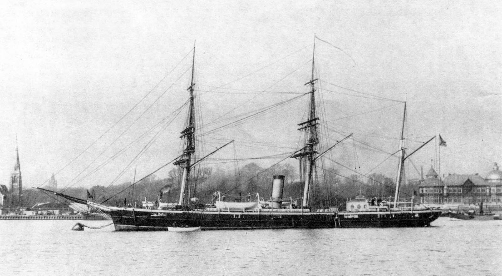 Imperial Russian cruiser 2 class Kreyser.